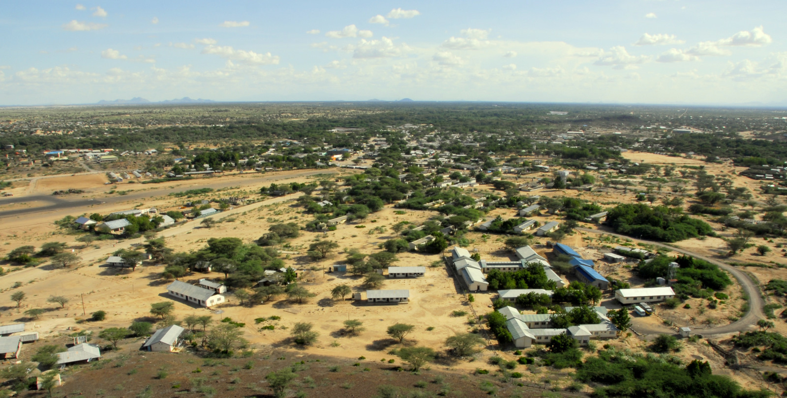 Lodwar, Kenya, from the nearest hill